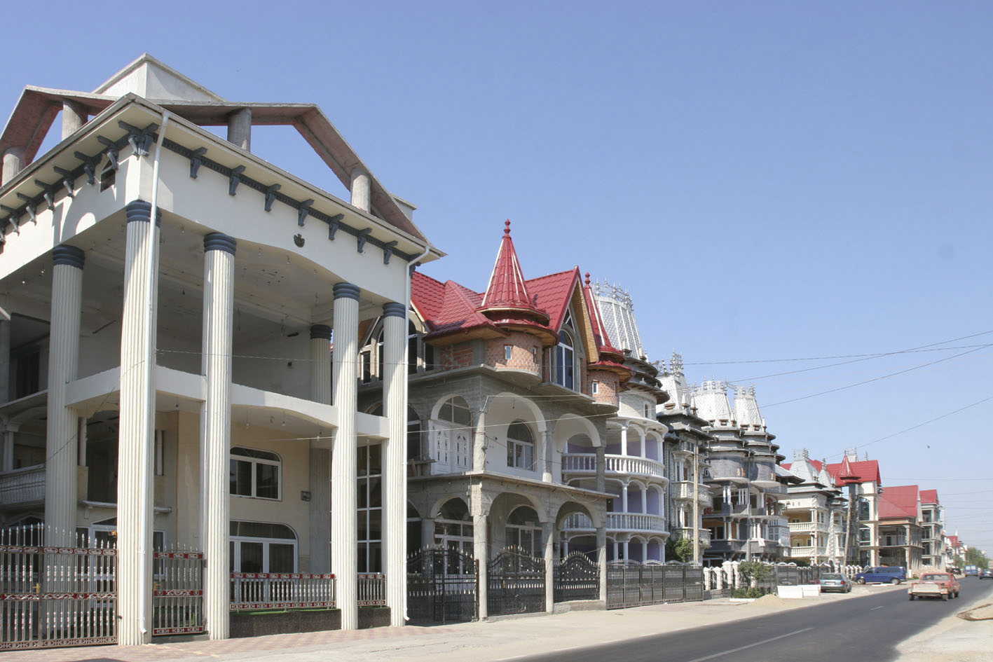 Buzescu: a rich Roma village in Romania